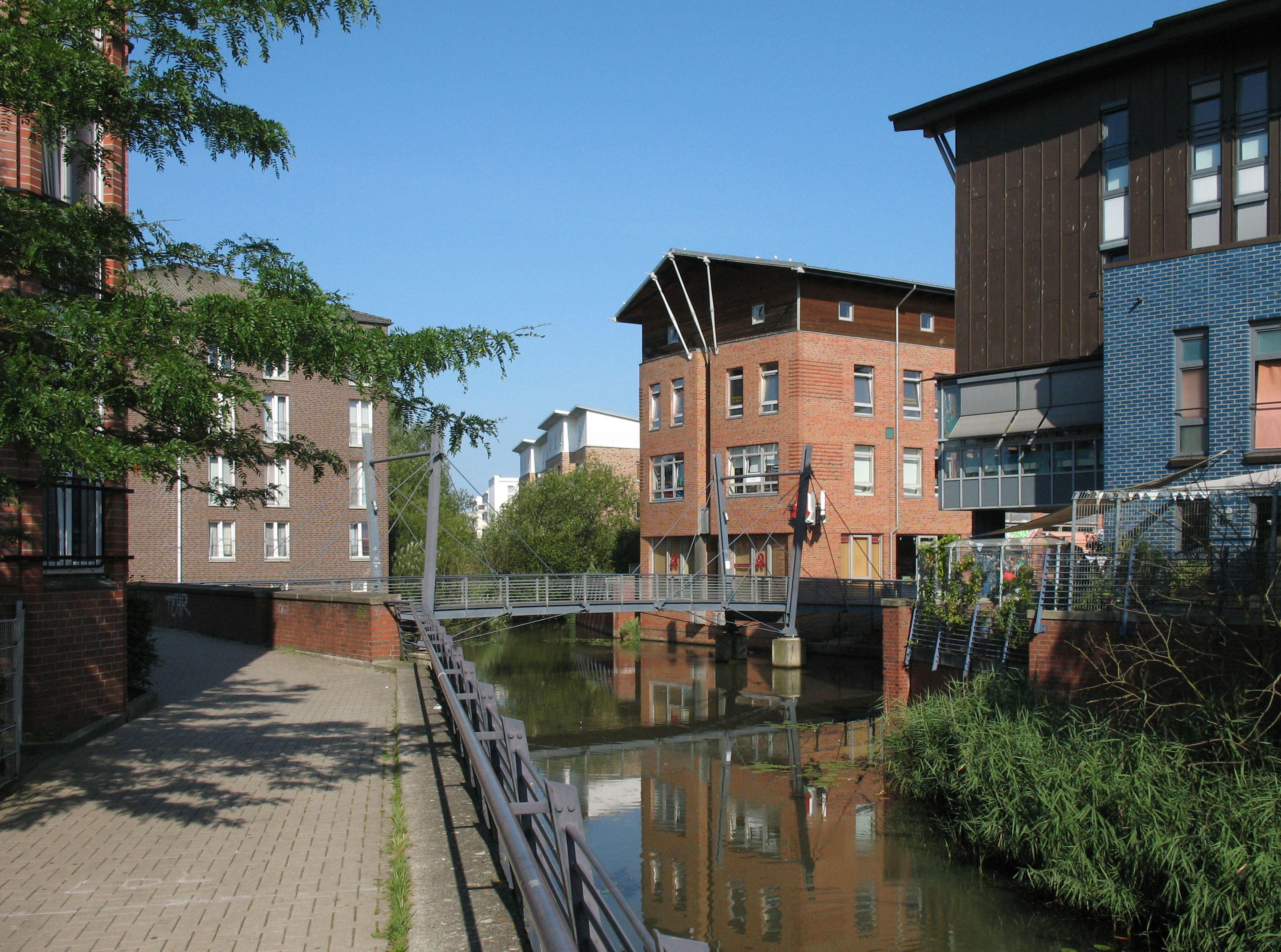 Town canal in Hamburg-Allermöhe, Germany